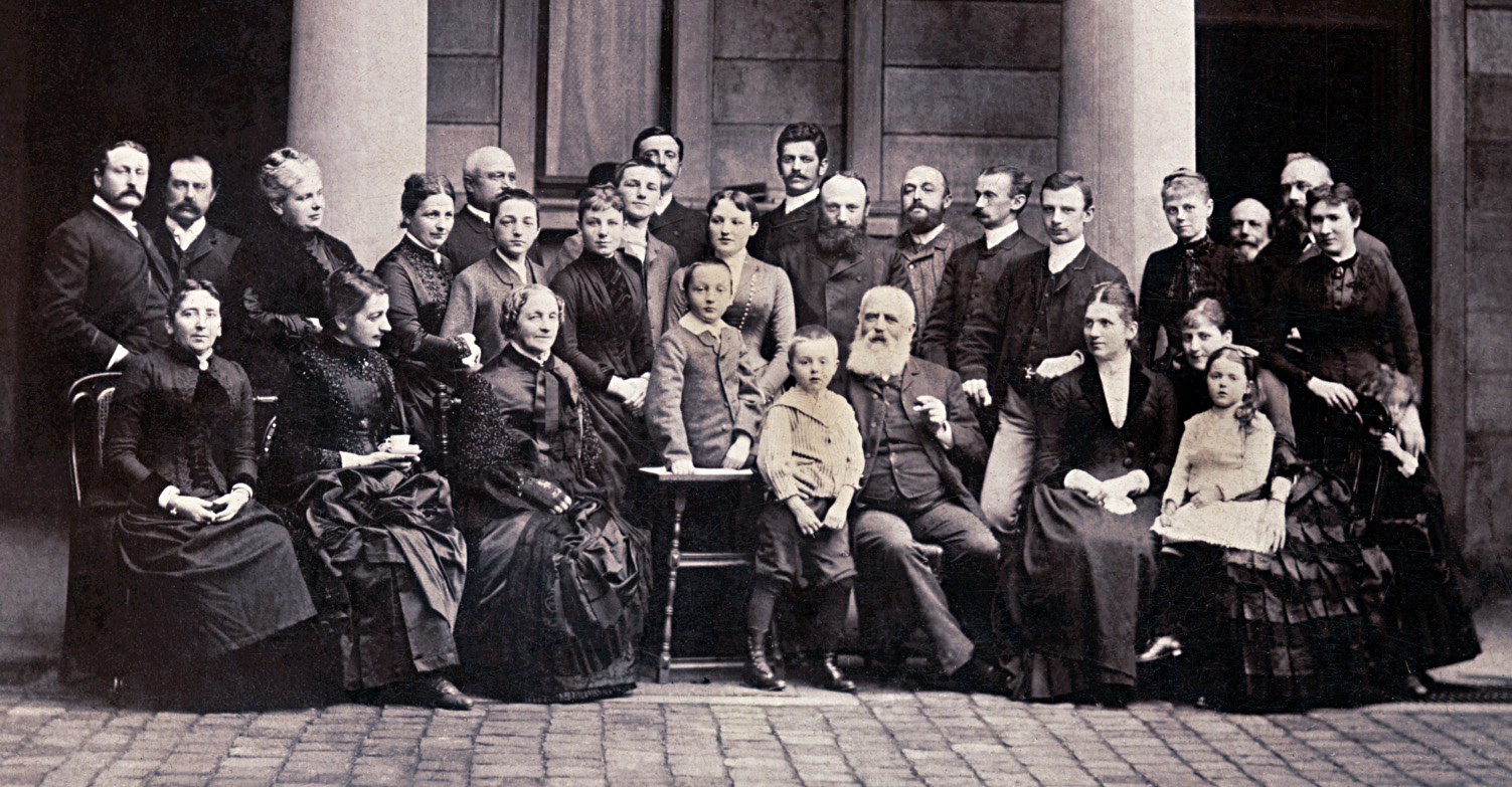 The Engelhorn family in 1887